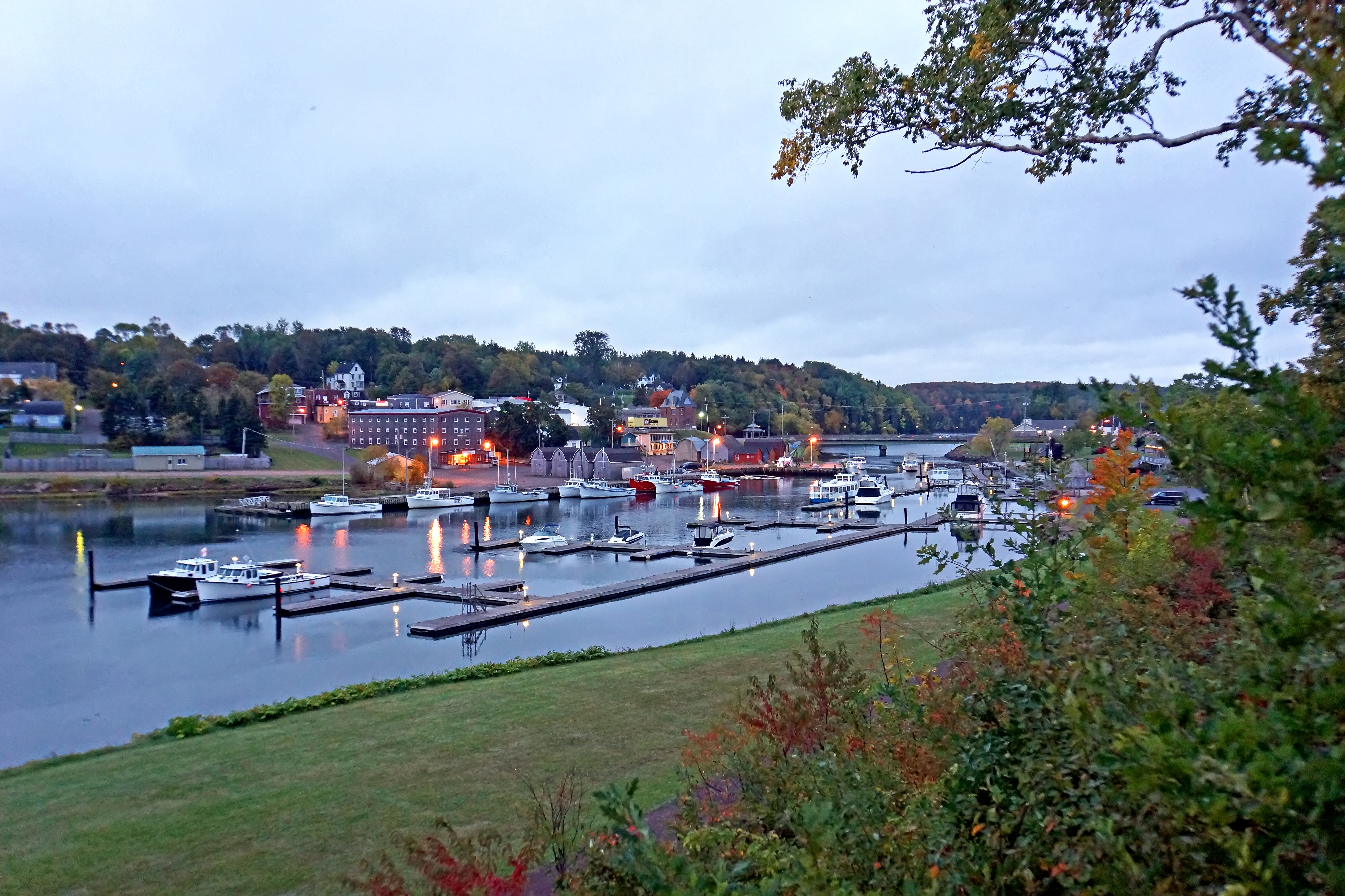 PLEASE, NO invitations or self promotions, THEY WILL BE DELETED. My photos are FREE to use, just give me credit and it would be nice if you let me know, thanks. This is from the motel room where I sent the night, Montaque, PEI.